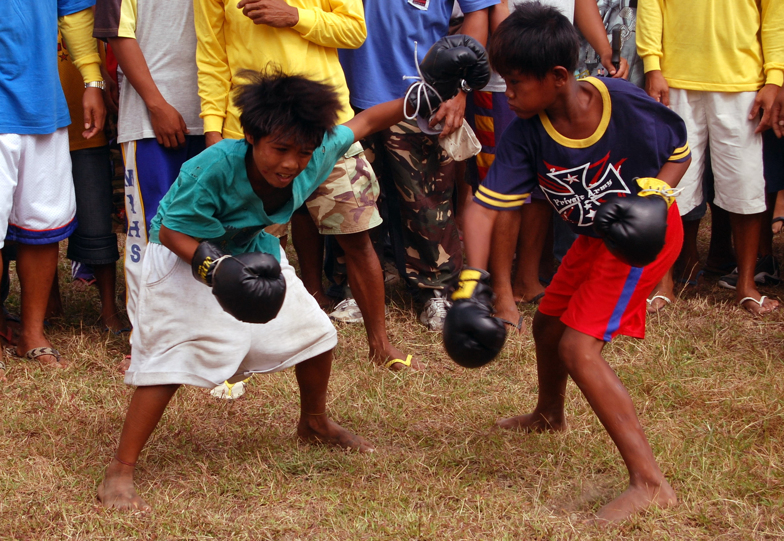 A wicked right cross almost ended the match. But he went on to fight. They were first time boxers. The ring was a field of dried grass enclosed by a circular wall of spectators. The gloves are oversized. Boxing (impromptu at that and for kids only) is one of the attractions of the Pantok Lenten Sports Festival. Nikon D40 (Pantok Lenten Sports Festival, March 2008).